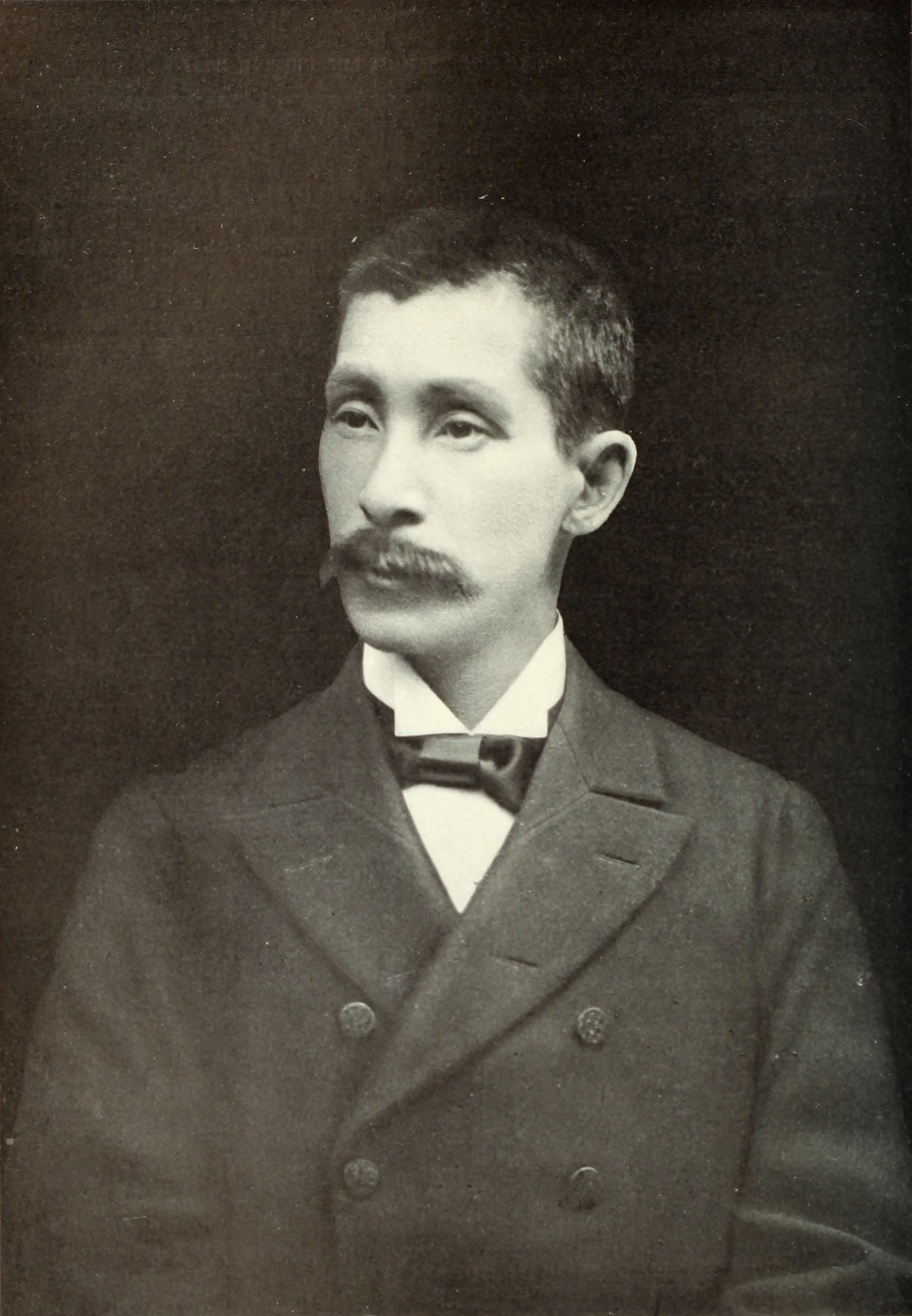 Portrait of Komura Jutaro